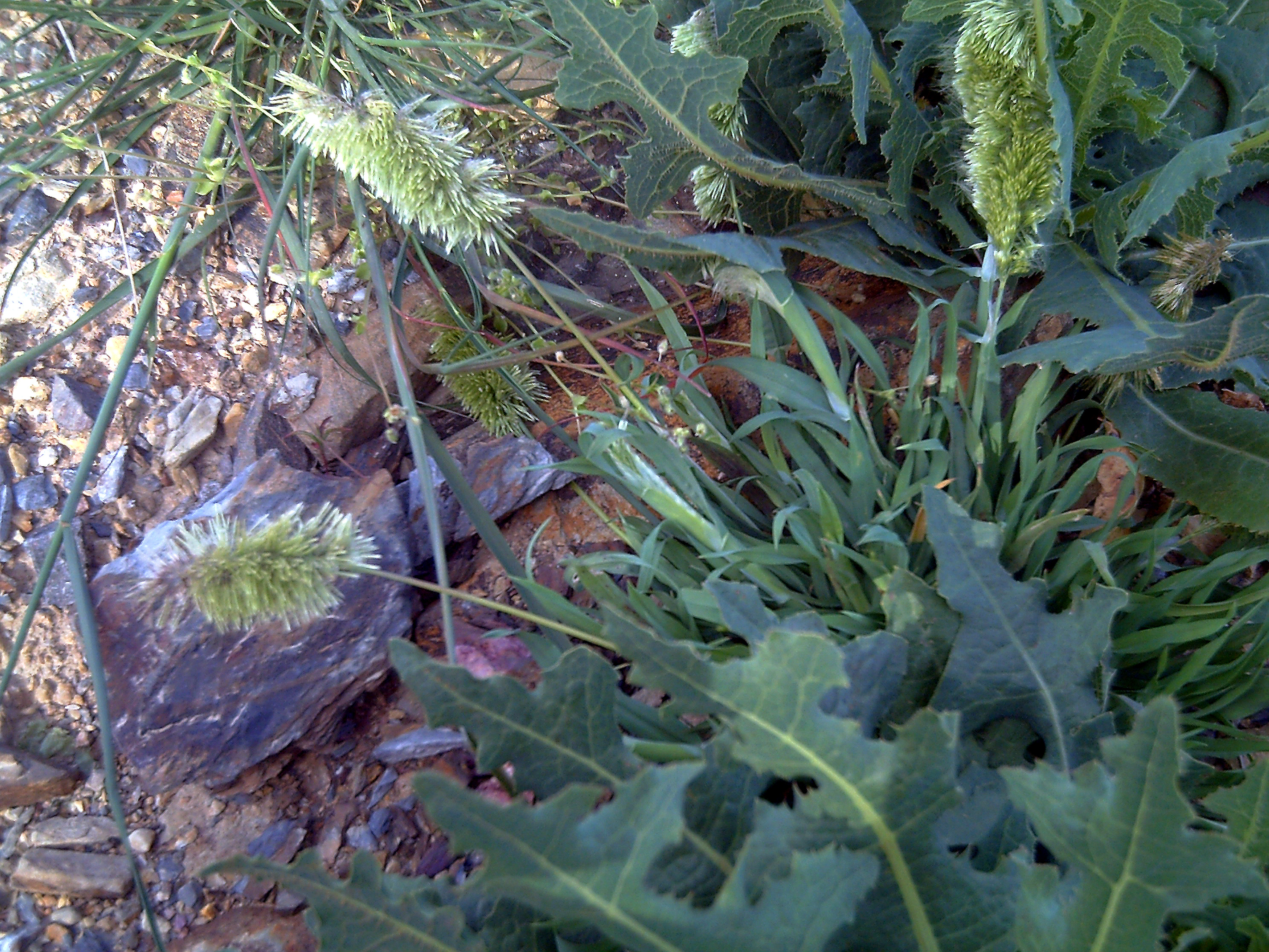 Lamarckia aurea habit, Dehesa Boyal de Puertollano, Spain